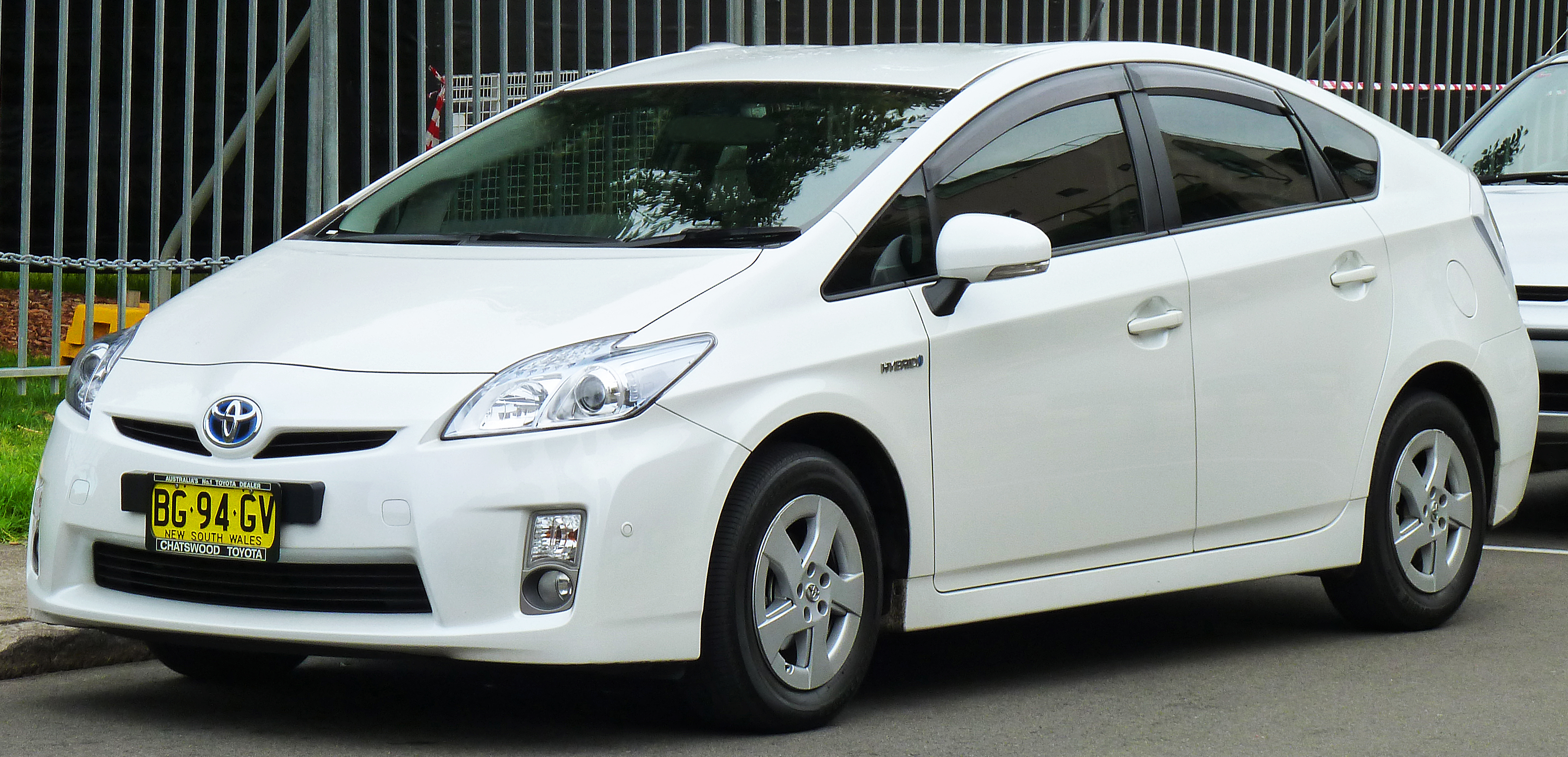 2009 Toyota Prius (ZVW30R) liftback. Photographed in Sydney, New South Wales, Australia.